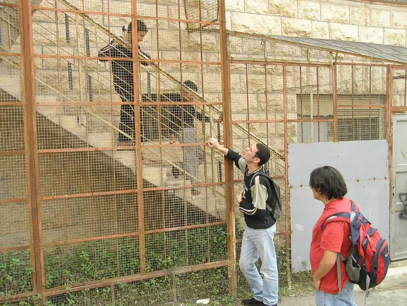 Hebron.